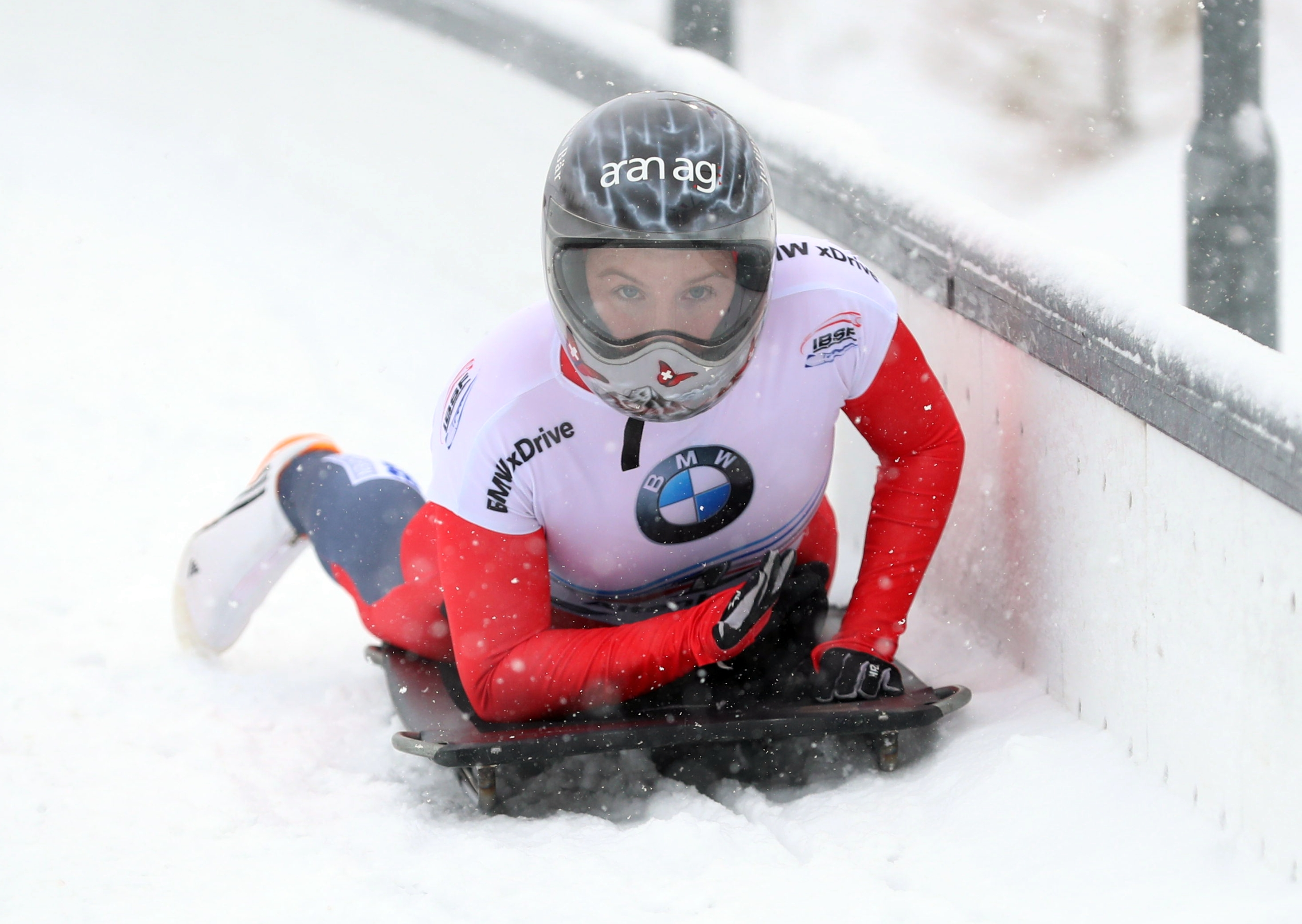 Women's World Cup race at the 2018/19 Skeleton World Cup in Altenberg